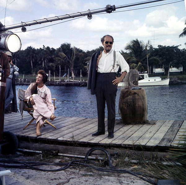 Persistent URL: Local call number: JJS0242 Title: Chana Eden and Emmett Kelly on the set of "Wind Across the Everglades," Everglades National Park Date: 1958 General note: "Wind Across the Everglades" was directed by Nicholas Ray ("Rebel Without a Cause") and written by Budd Schulberg ("A Star is Born"; "On the Waterfront"). The movie starred Christopher Plummer and Burl Ives and was released by Warner Brothers in 1958. Physical descrip: 1 transparency - col. - 60 mm. Series Title: Joseph Janney Steinmetz Collection Repository: State Library and Archives of Florida, 500 S. Bronough St., Tallahassee, FL 32399-0250 USA. Contact: 850.245.6700.